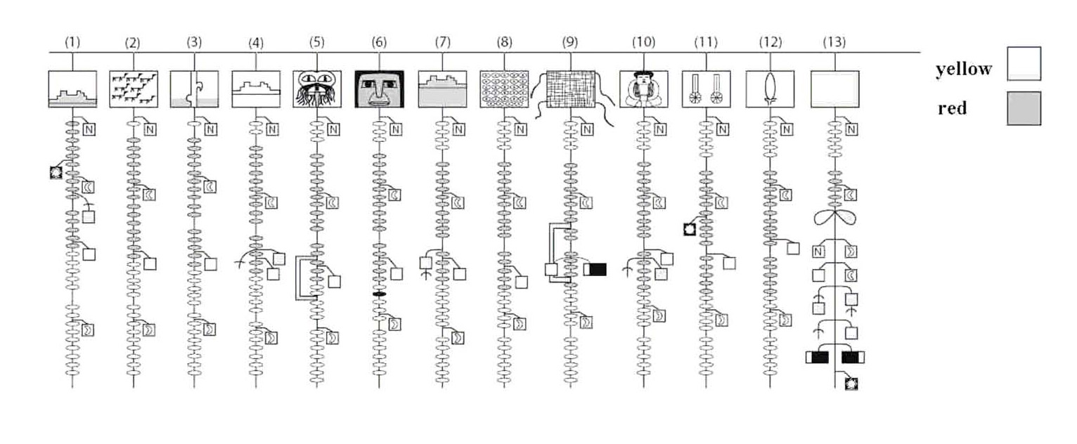 The schematic drawing of a quipu of an Inca calendar, drawn by the jesuit Padre Blas Valera in the year 1618. The 13 pendants show the 12 months (1st - 12th pendant) and an insertion week (13th pendant). Each pendant and inca month can be identified by a quadratic cartouche, named Ticcisimi.